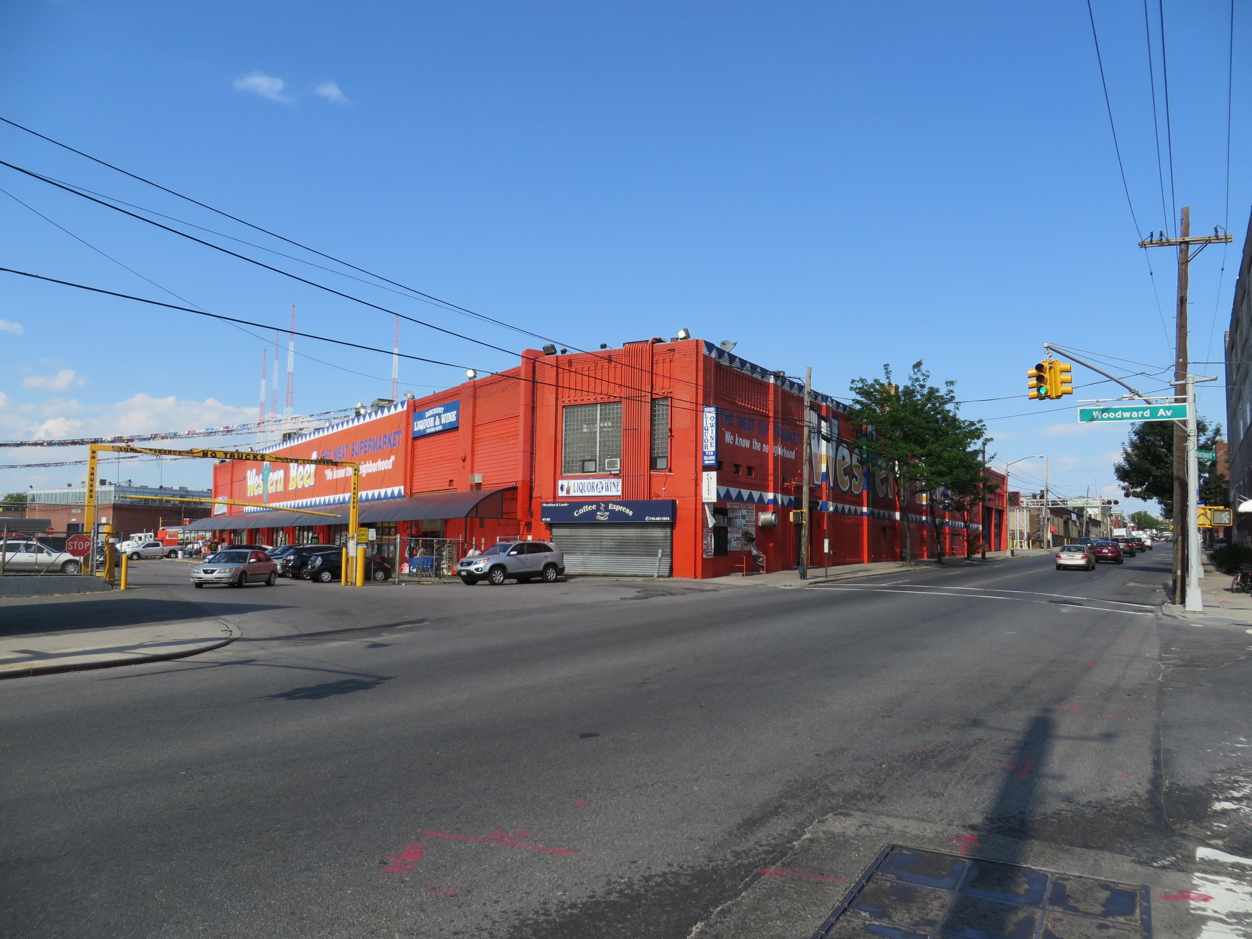 Western Beef, 47-05 Metropolitan Avenue, Ridgewood, Queens, New York.